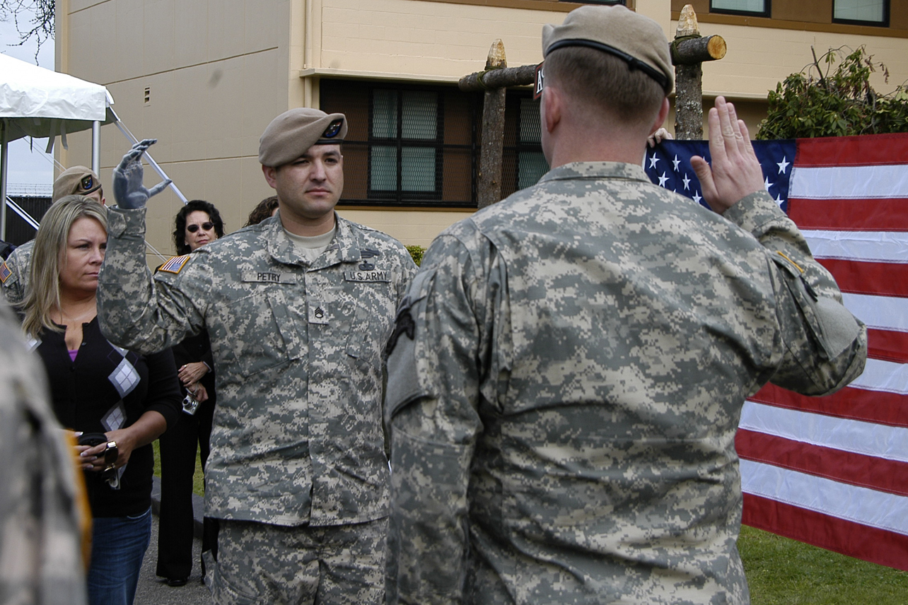 U.S. Army Staff Sergeant Leroy Petry during a re-enlistment ceremony at Fort Lewis, Washington, in May 2010.